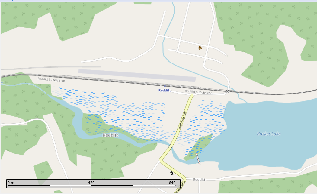 Open Street Map showing the Redditt VIA rail stop in Northern Ontario. At the end of Highway 658. The railway stop has two passing tracks.